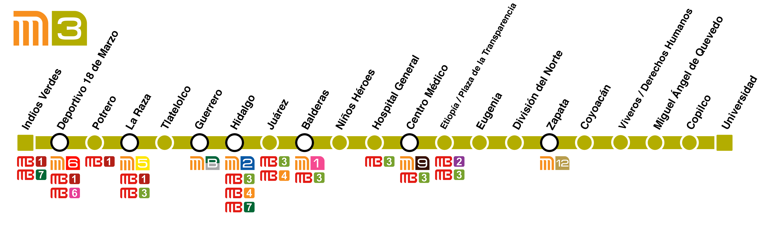 Mexico City Metro Line 3 scheme